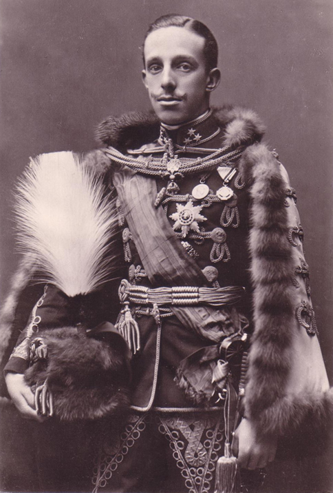 King Alfonso XIII of Spain in a photography from XX century first quart.